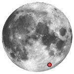 Description: Location of the Janssen crater on the Moon. The marker also shows the proximity of the Lockyer, Fabricius, Steinheil, and Watt craters Source: This is a modified version of a photo obtained from the NASA Planetary Photojournal. It was modified by RJHall. Width: 150 pixels Height: 150 pixels